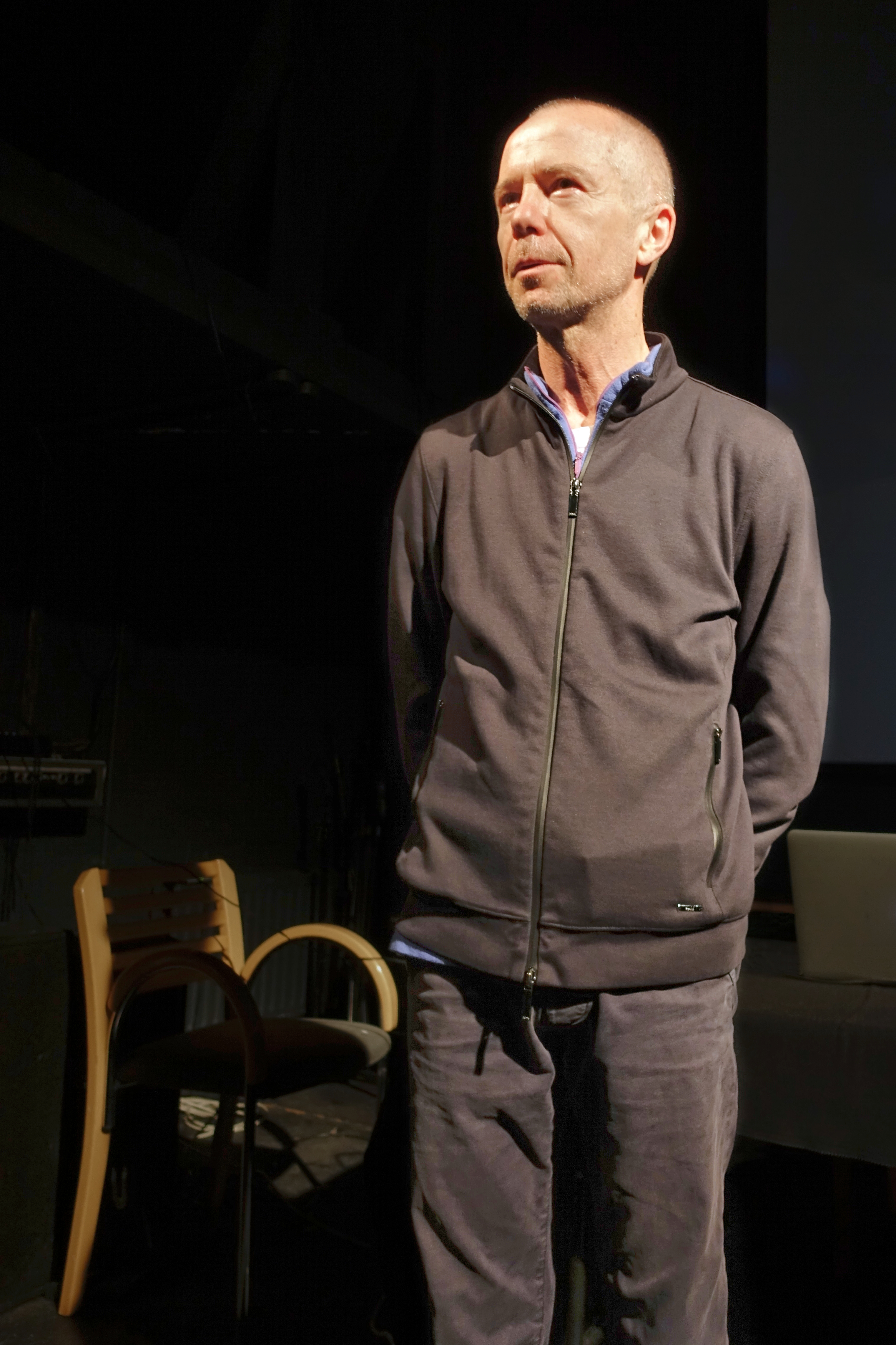 Mel Mercier at the Craiceann Bodhràn Festival 2017